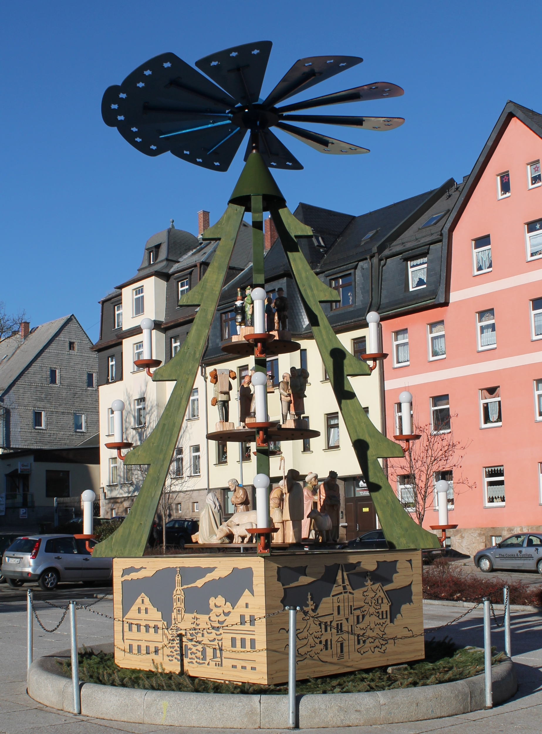 Outdoor christmas pyramid in Lauter, Saxony, Germany.